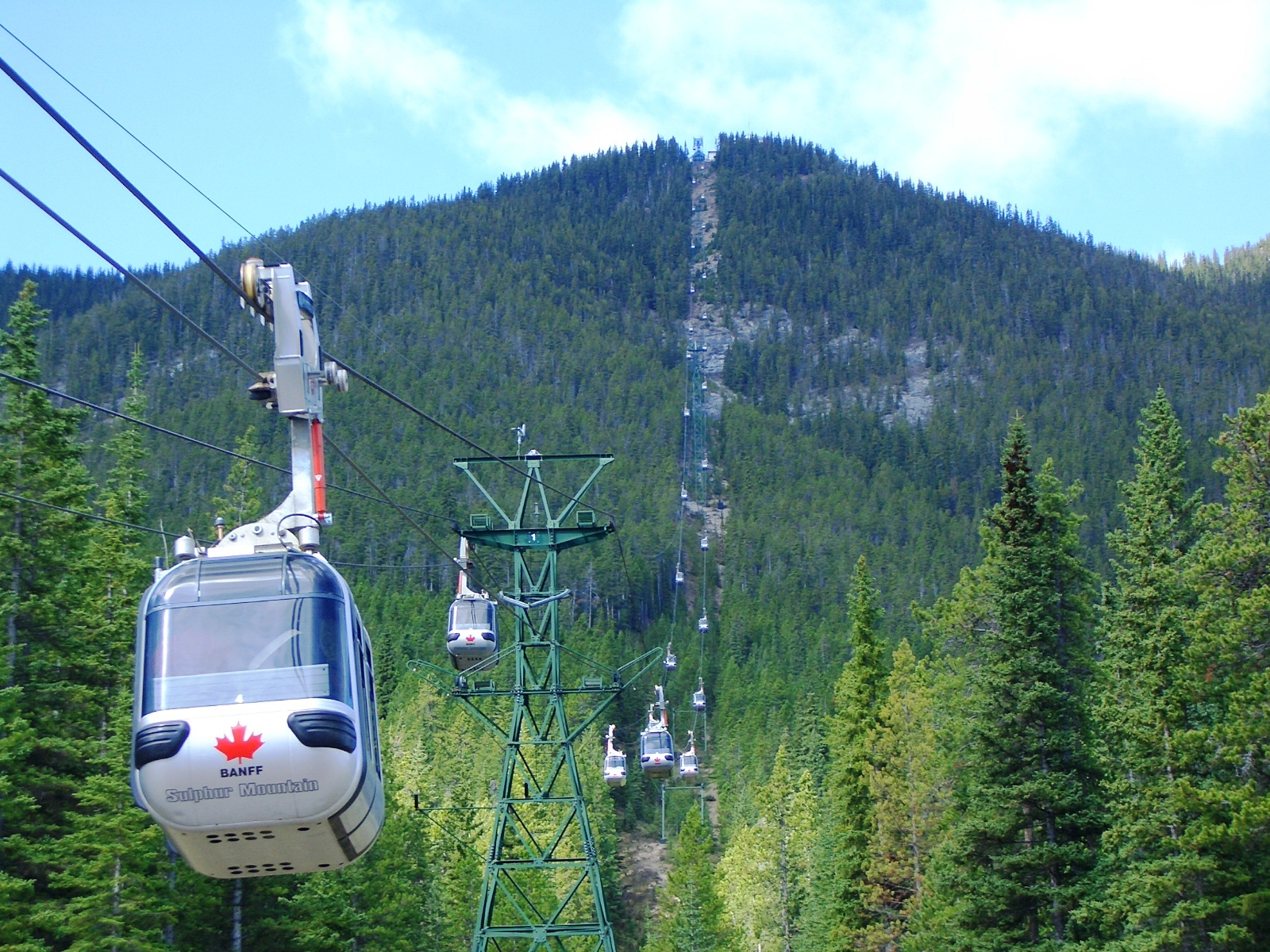 self authored by chen siyuan, released under GFDL